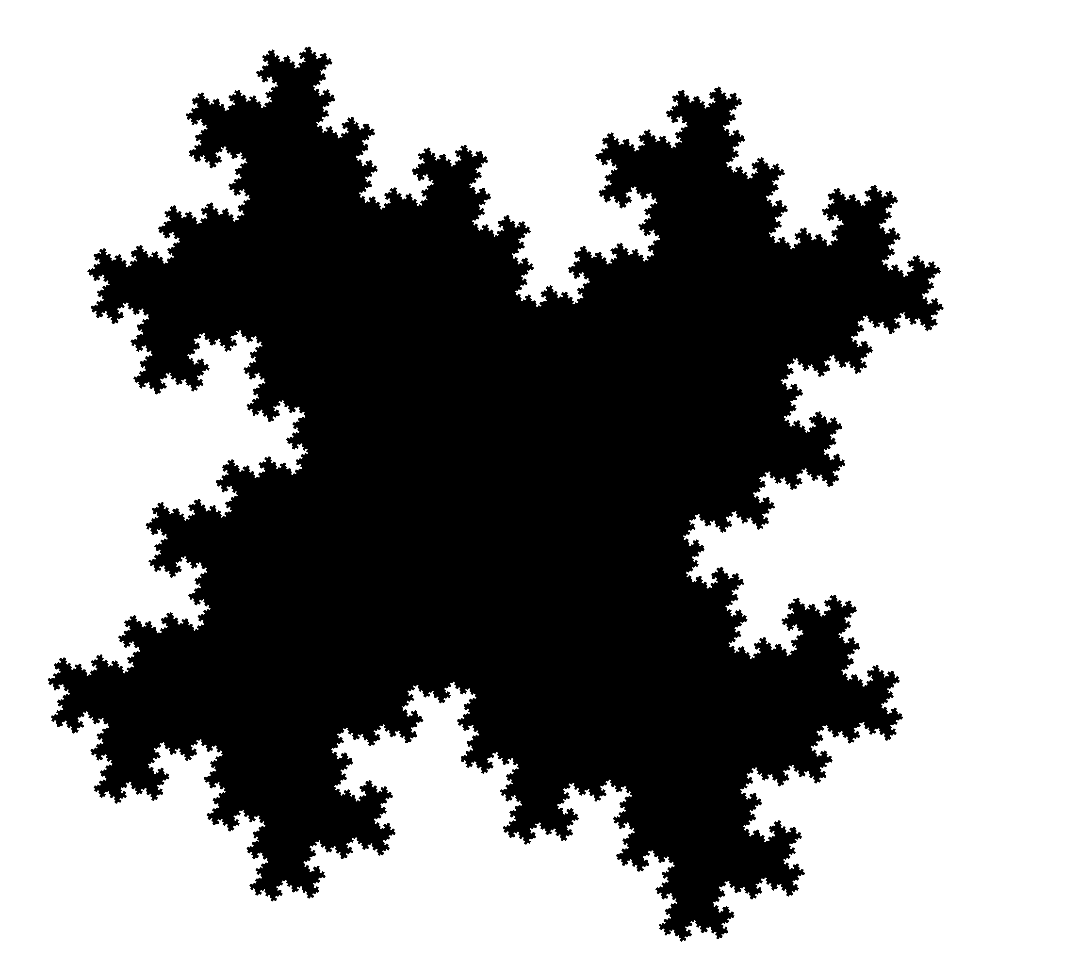 Fractal contour